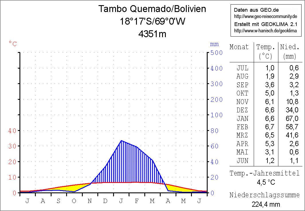 Climate chart in the Walter and Lieth format, metric, °Celsius und millimeters, made with Geoklima 2.1